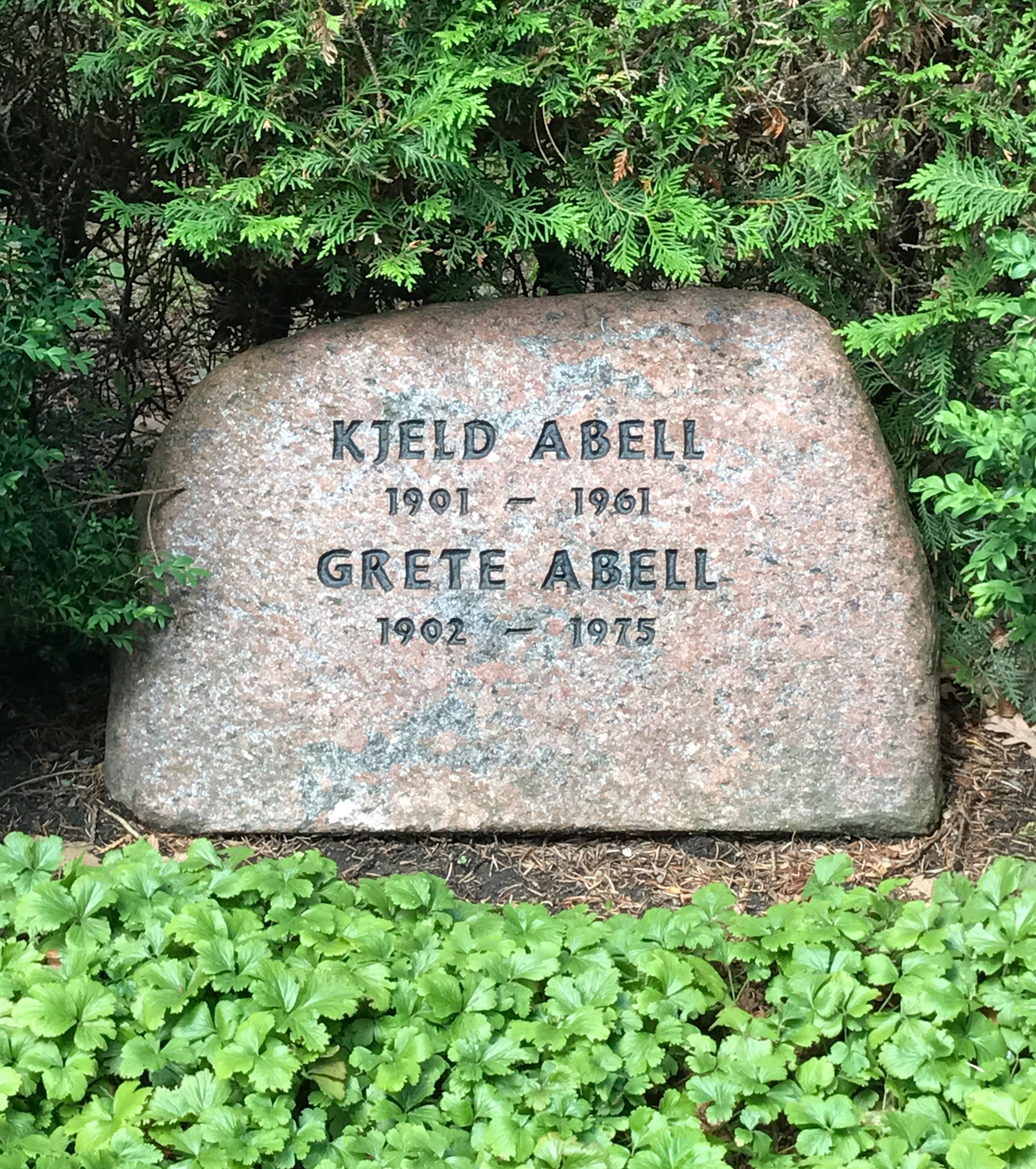 The grave of Danish playwriter Kjeld Abell